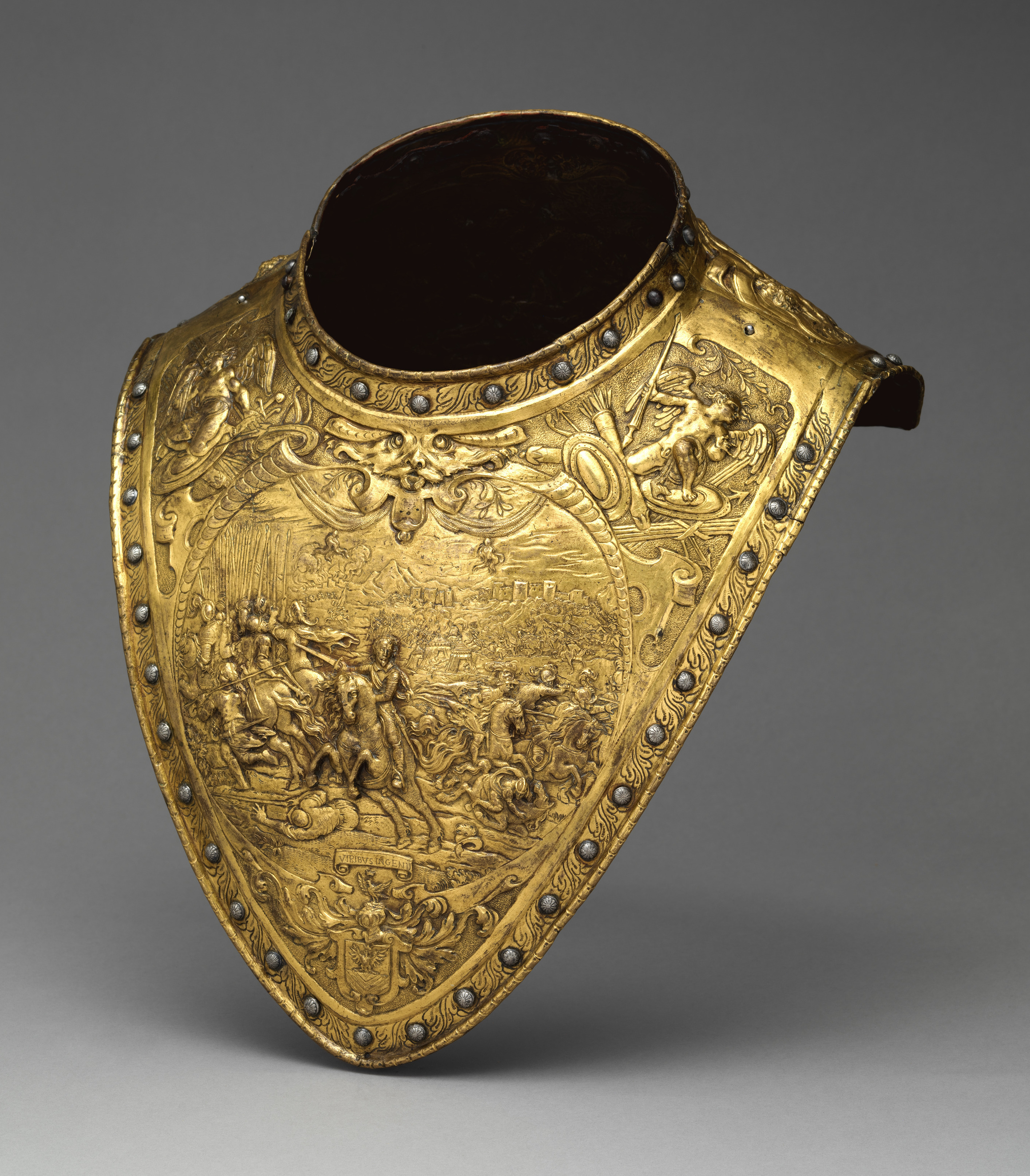 probably Dutch; Gorget; Armor Parts-Colletins